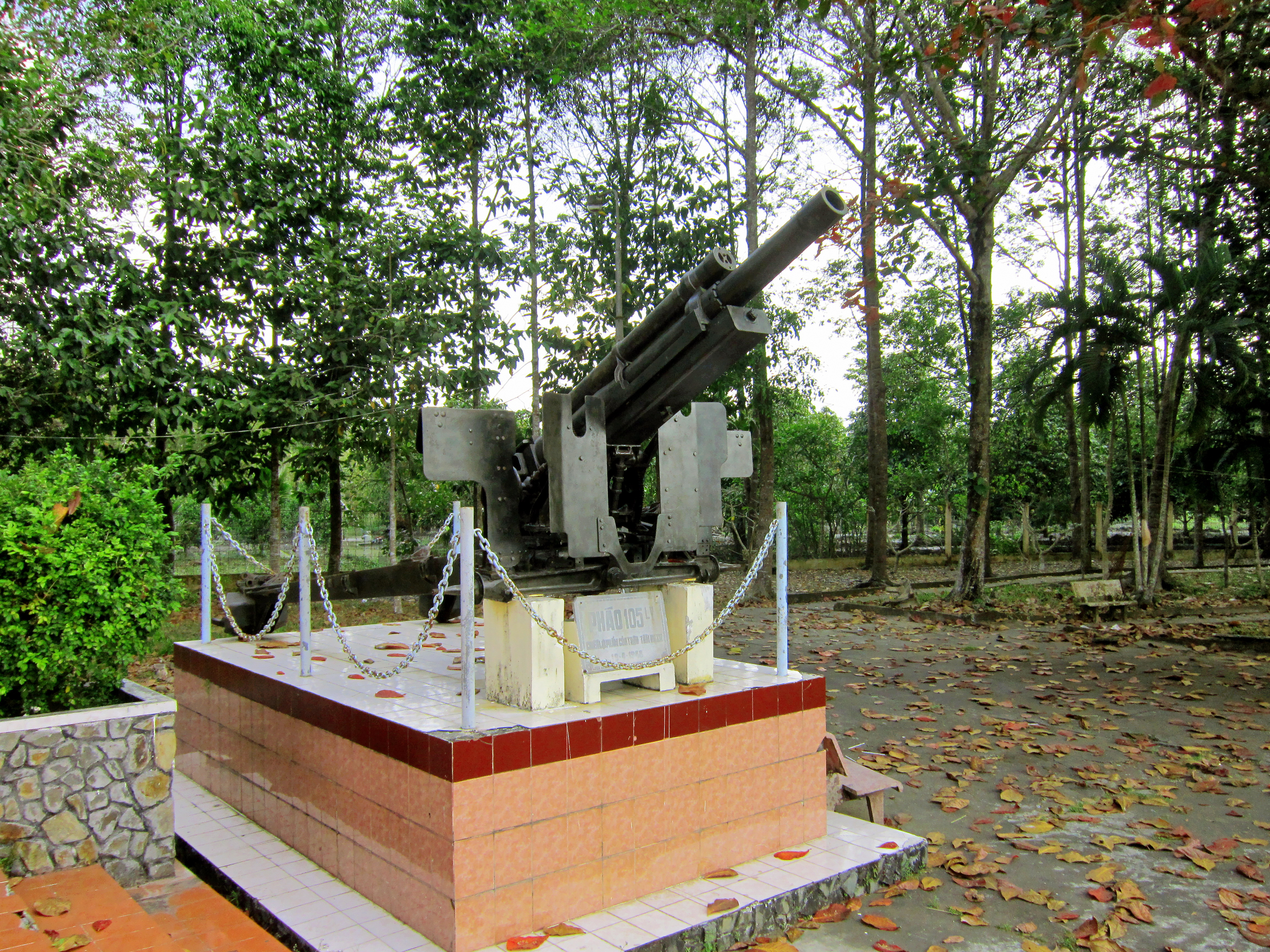 A 105 mm artillery seized by Vietnam's People Army from French force in April 1948 in current Thạnh Xuân, Châu Thành A District, Hậu Giang Province, Việt Nam during Indochina War.